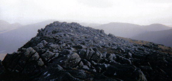 Clisham, located in the Isle of Harris, is the highest hill in the Outer Hebrides. Here it is seen from its top.